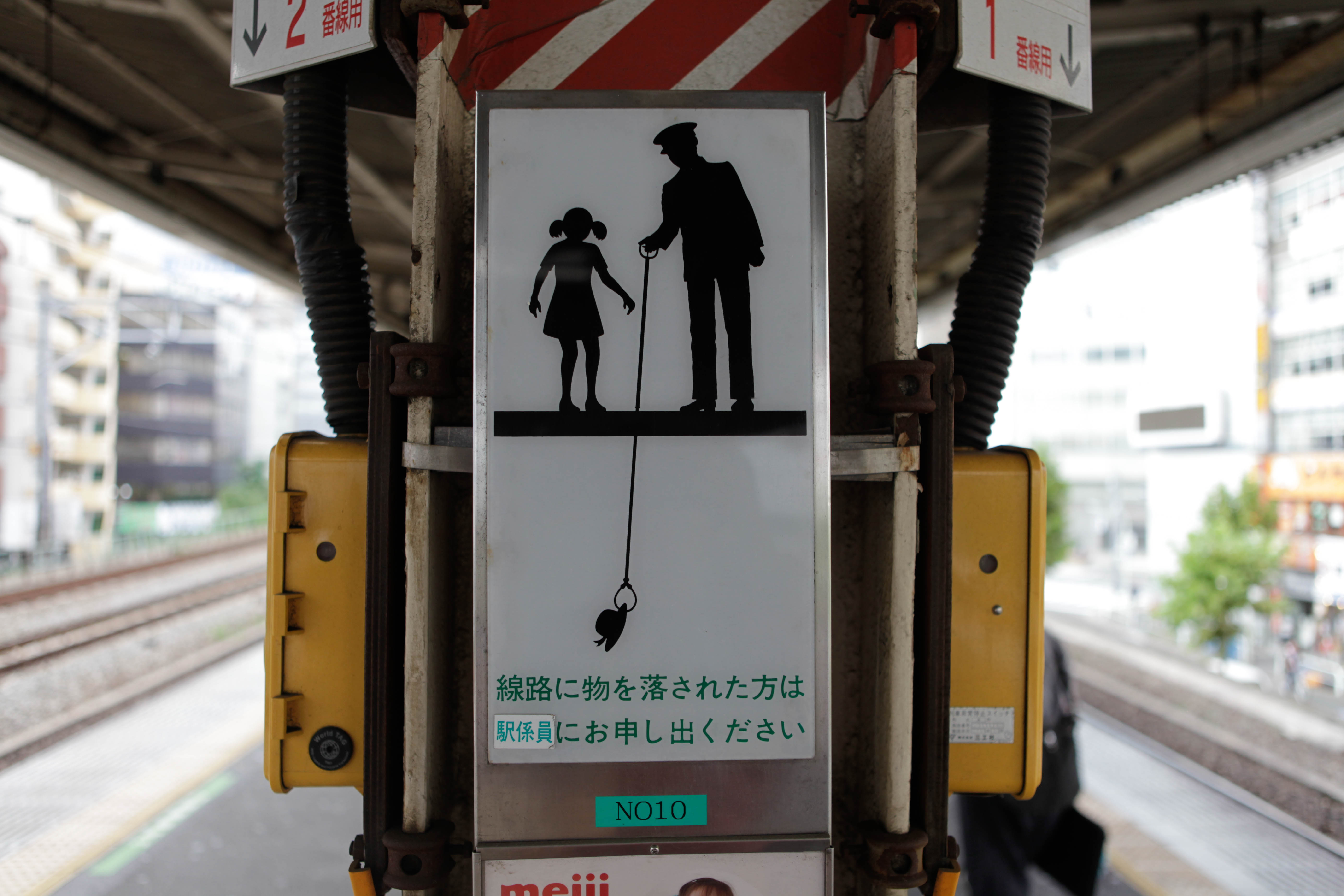 sign on the platform of the Yamanote Line at Gotanda [1] [2][3] 駅係員 駅社員 [4]